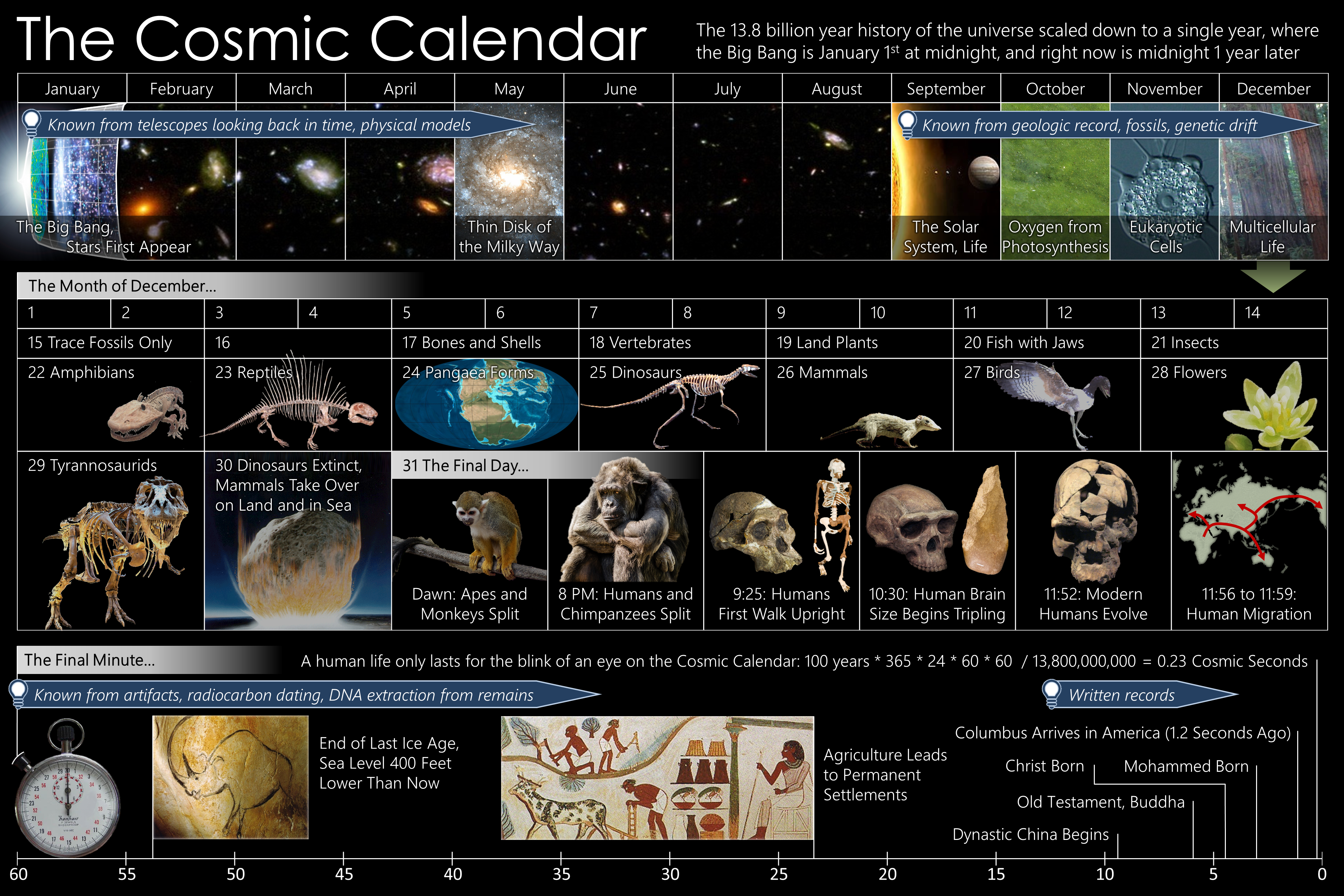 The 13.8 billion year lifetime of the universe mapped onto a single year. At this scale the Big Bang takes place at the instant of midnight going into January 1, and the current time is the end of December 31 at midnight, and the longest human life is about 1/4th of a second, a blink of an eye.[1] The scale was popularized by Carl Sagan in his book The Dragons of Eden and on the television series Cosmos, which he hosted.